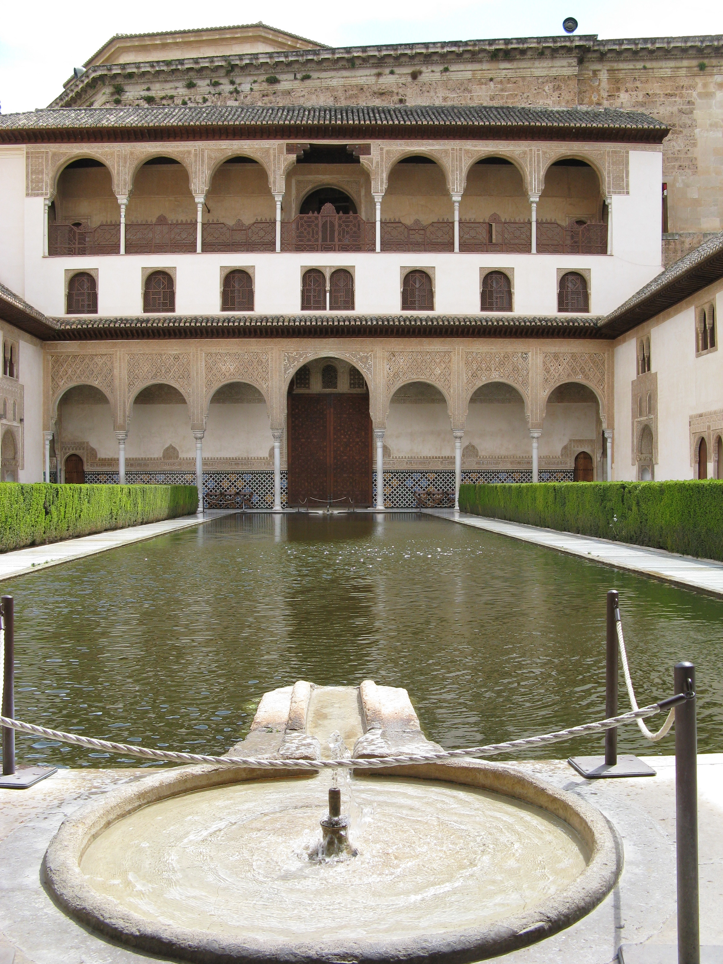 Alhambra.